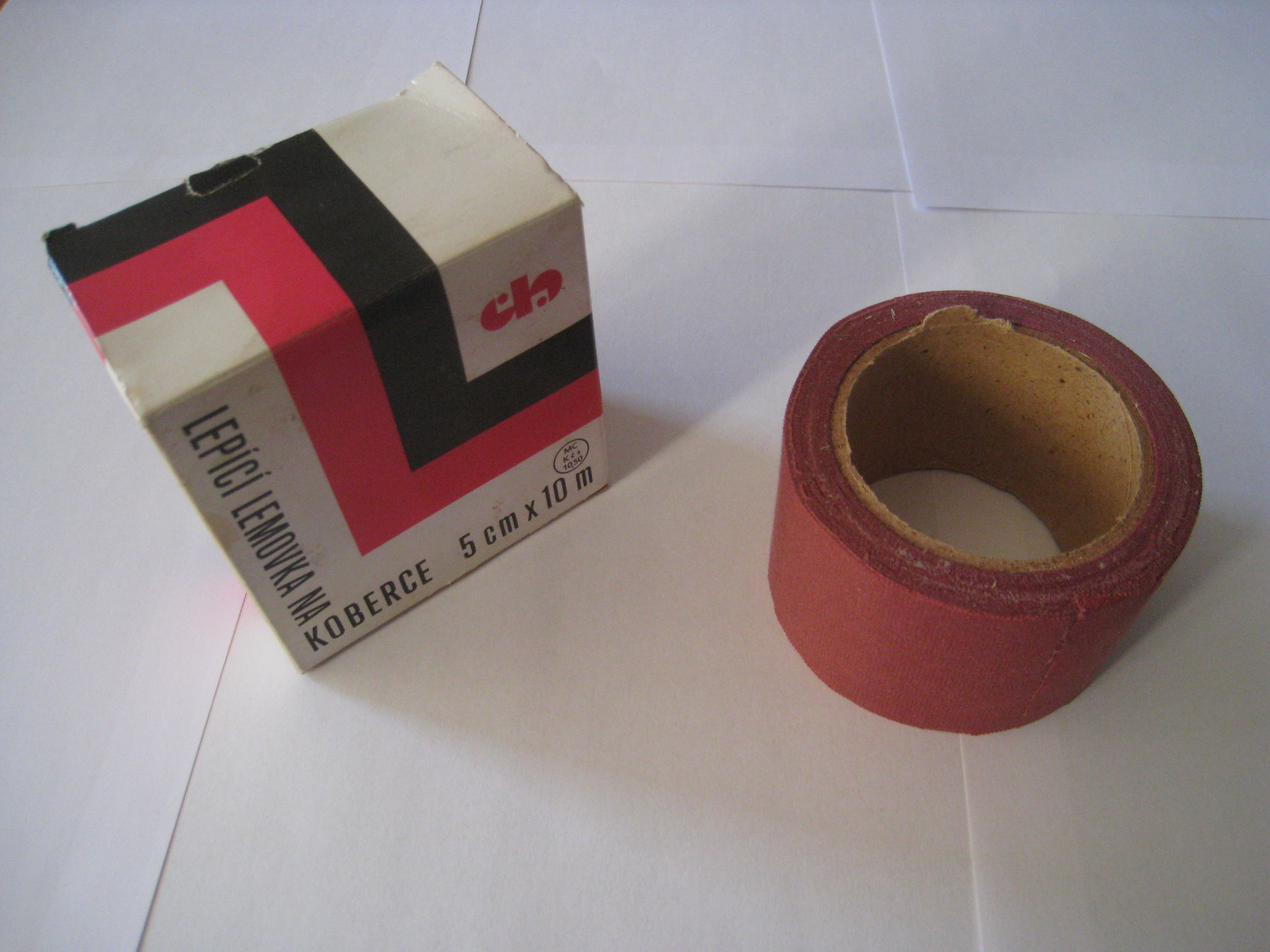 Historical carpet tape, made in 1989 by Chemopharma n.p. Ústí nad Labem, Czechoslovakia, sale price 10,50 CSK